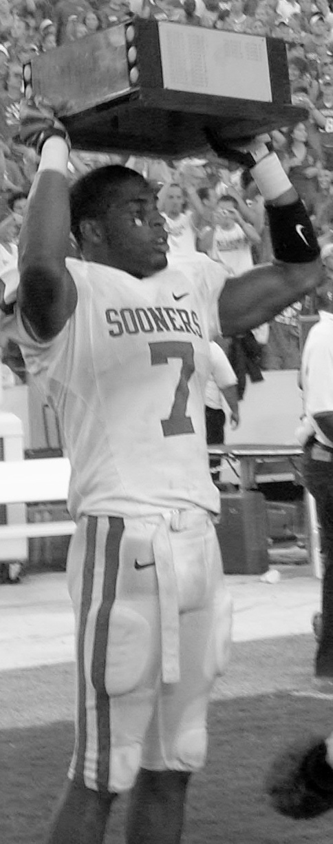 DeMarco Murray hoists a trophy moments after leading the Oklahoma Sooners to a 28-21 victory of the Texas Longhorns during the 2007 Red River Rivalry game. Murray carried the ball 17 times for 128 yards and a touchdown.